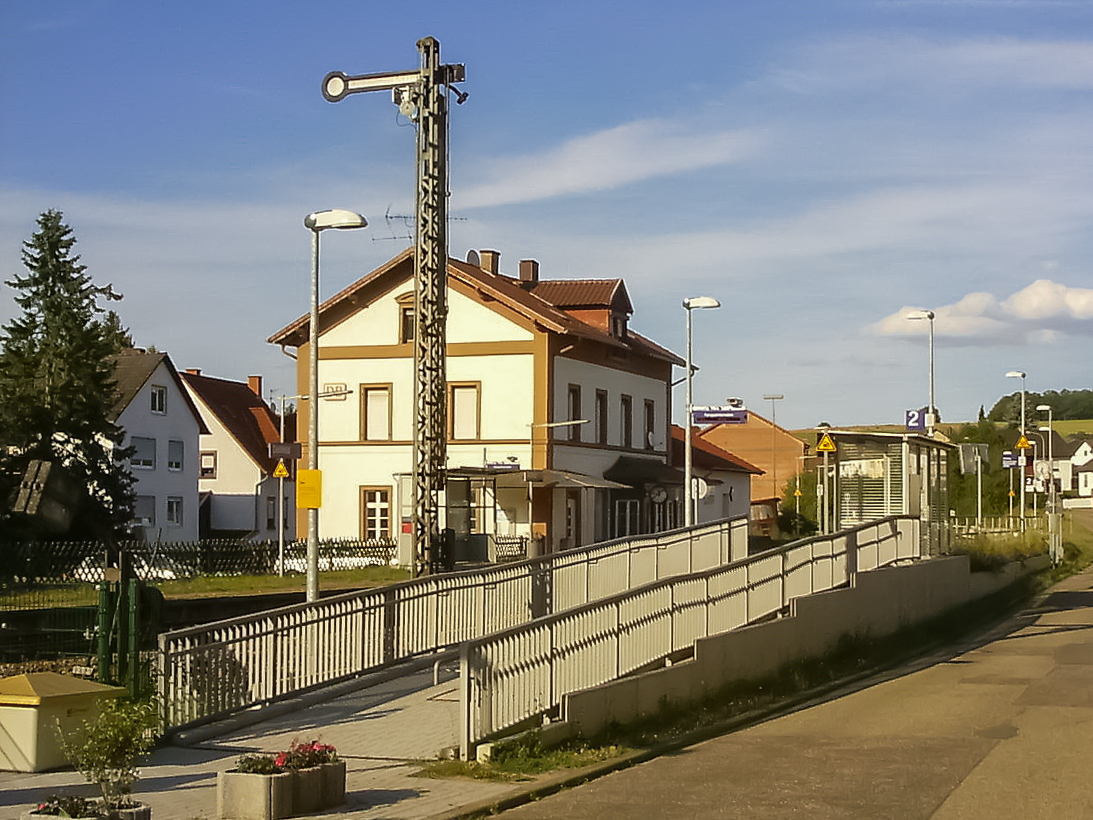 Dellfeld train station with crossing facility